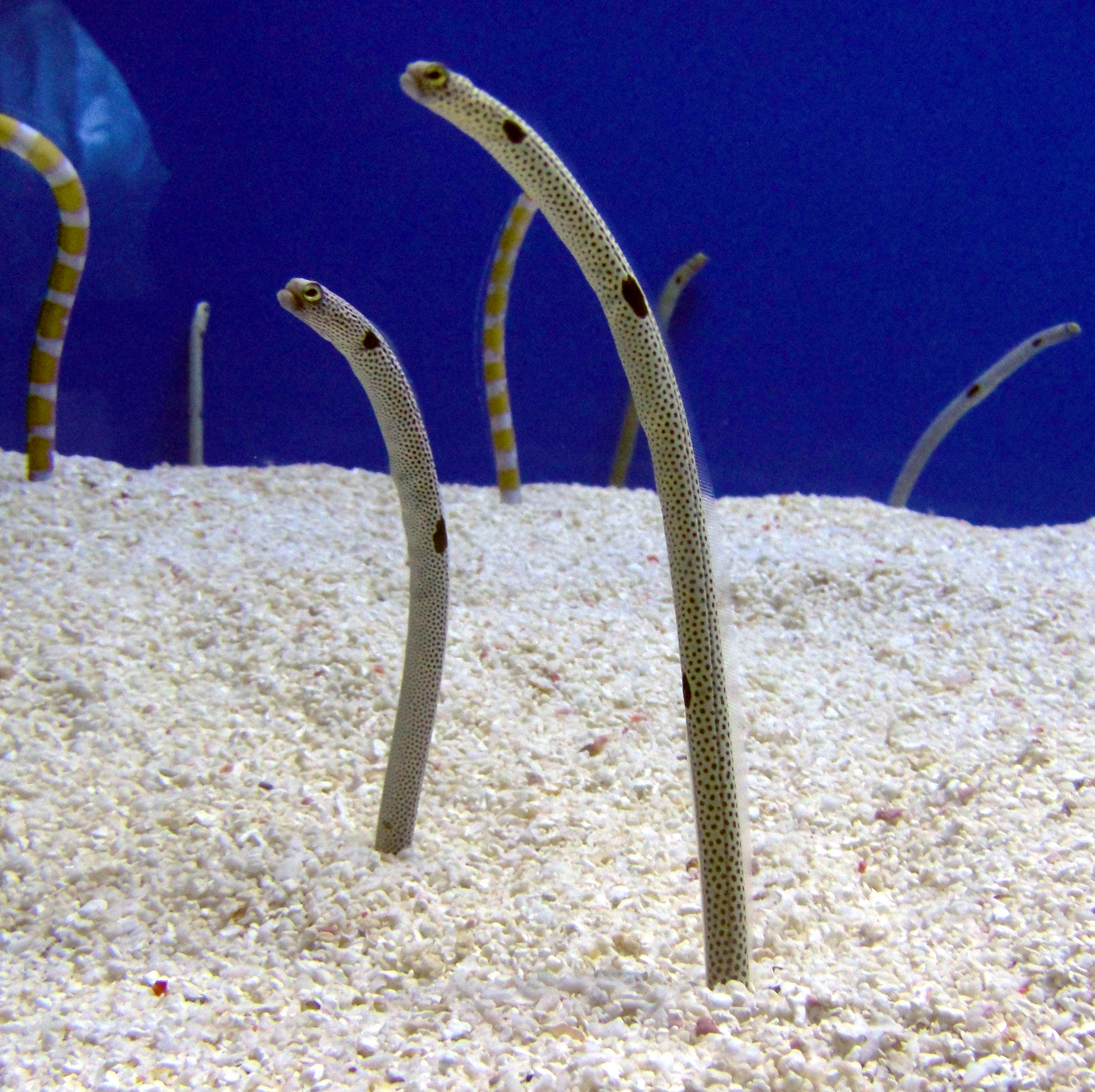 Garden Eels in Dubai Aquarium. Garden eels with spots are Heteroconger hassi (both in foreground and background) and with stripes are Gorgasia preclara (background only)